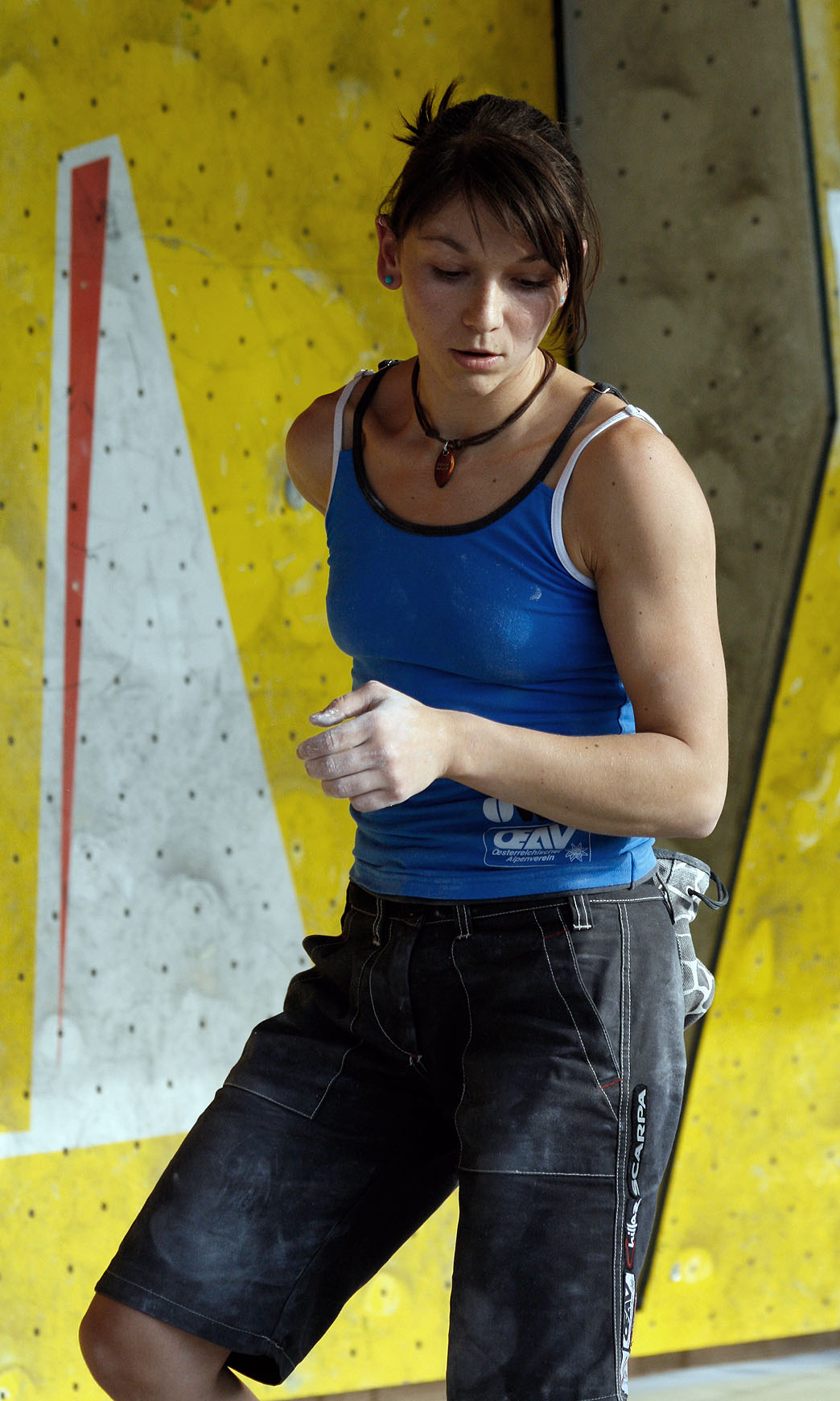 Sabine Bacher during qualifications at the IFSC Boulder Worldcup Vienna 2010.